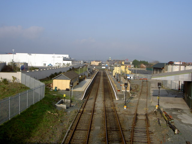 Arklow railway station Original description: Arklow Railway Station Arklow railway station is located on the main east-coast line between Dublin and Rosslare. The station sees commuter services to Dublin Connolly and Gorey, and also intercity services to Rosslare Europort. The photo was taken from the railway bridge looking north.